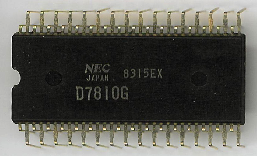 IC photo